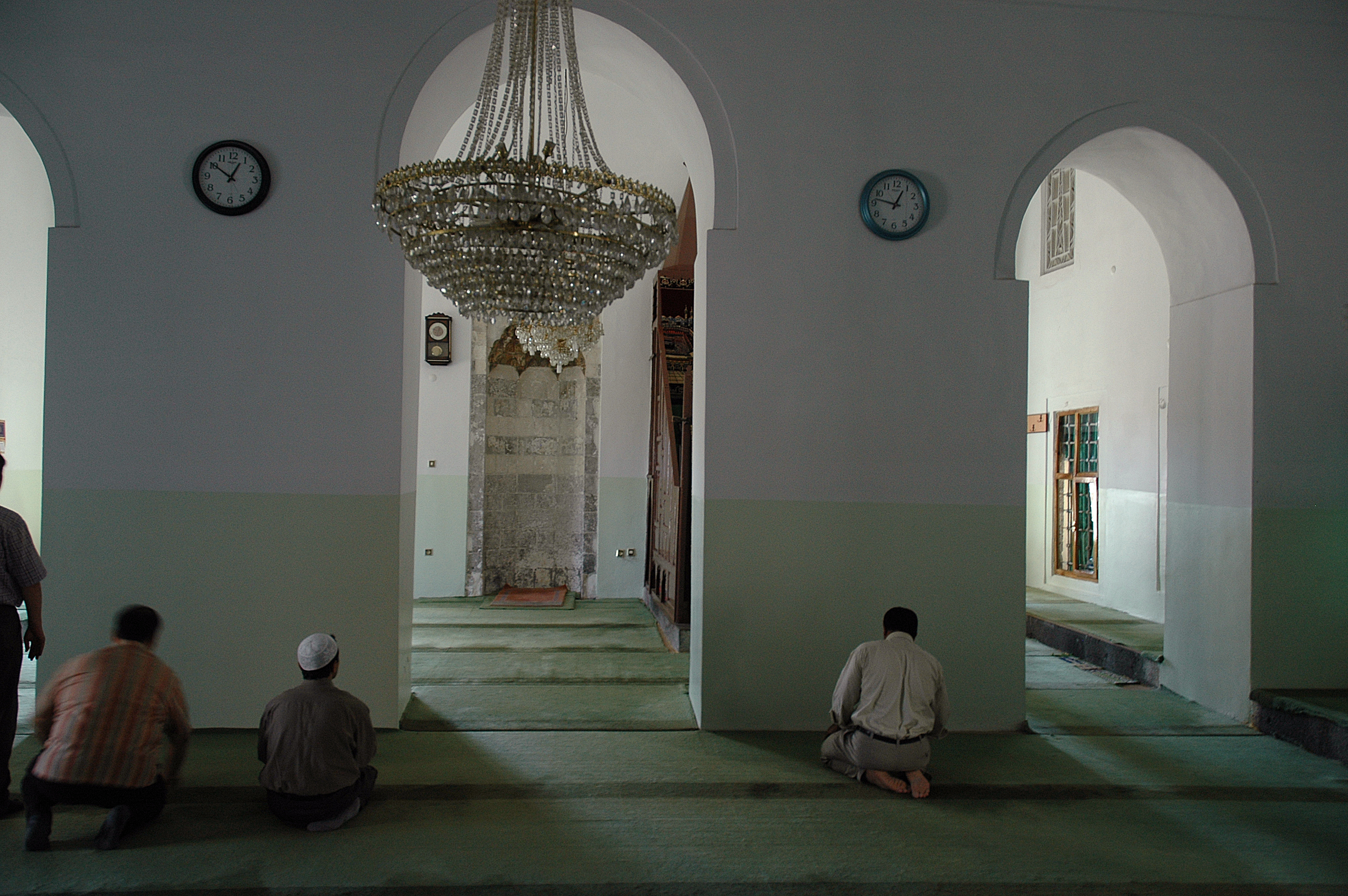 The Hazreti Süleyman Camii was built in 1160 but has been renovated often. It is situated within the citadel, and for that reason is also called Kale Camii. An inscription in its minaret (which contrasts with the current Selçuk style of the mosque) indicates it was by Abul Kasim Ali. There are several monumental graves in the complpex, I never understood for whom and why.